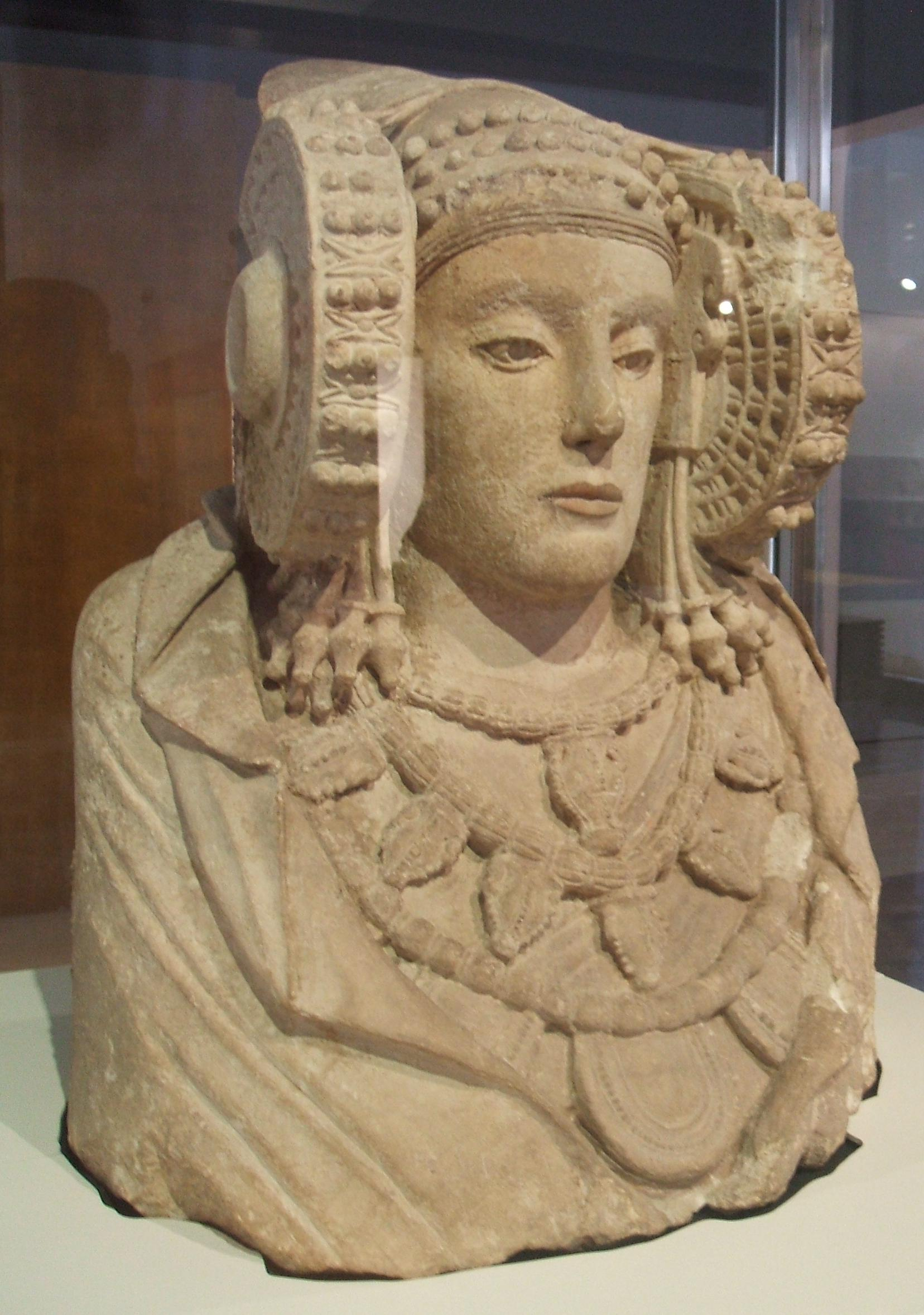 Iberian sculpture.